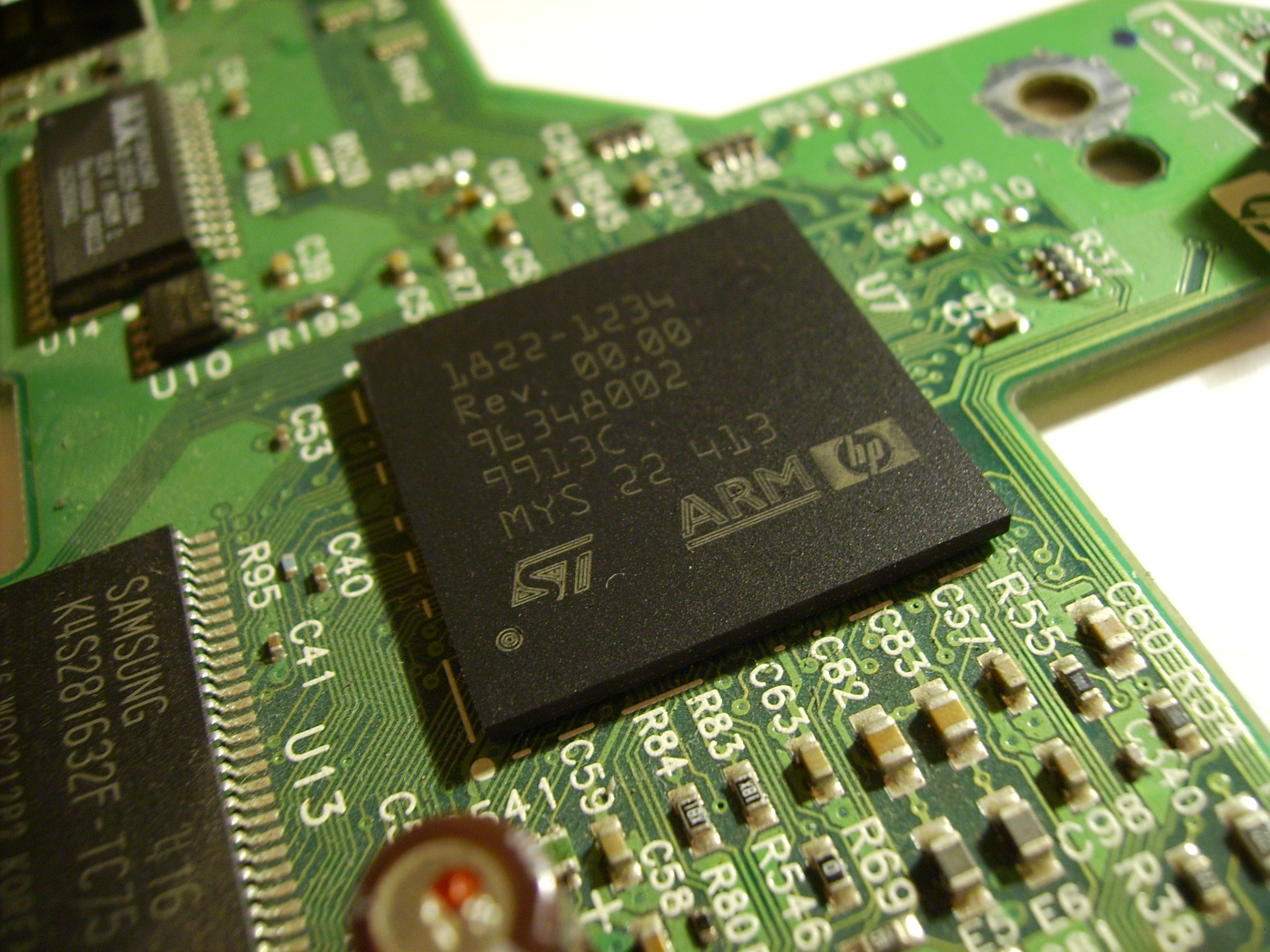 A photo of an ARM processor in a HP PSC-1315 printer